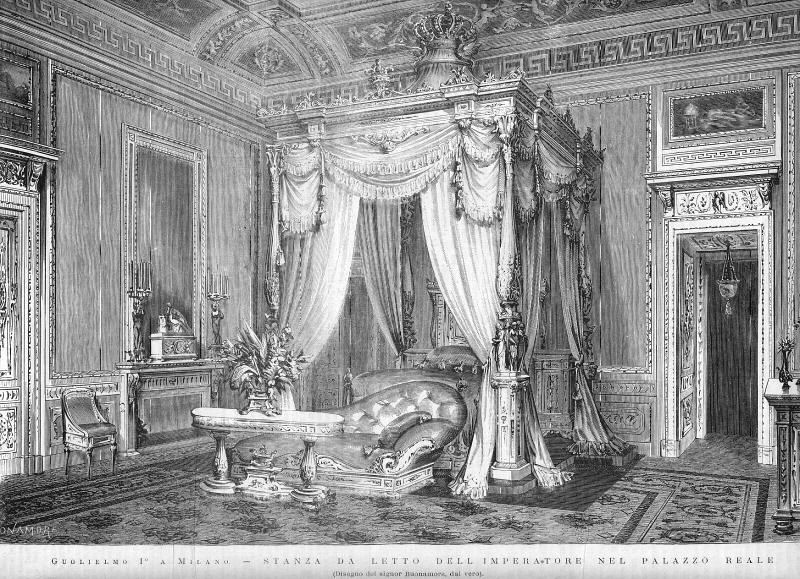 Antonio Bonamore (1845-1907) - "Wilhelm I in Milan - The kaiser's bedroom in the Royal Palace in Milan (October 17 1875)". Engraving from "L'Illustrazione Italiana", 1875.